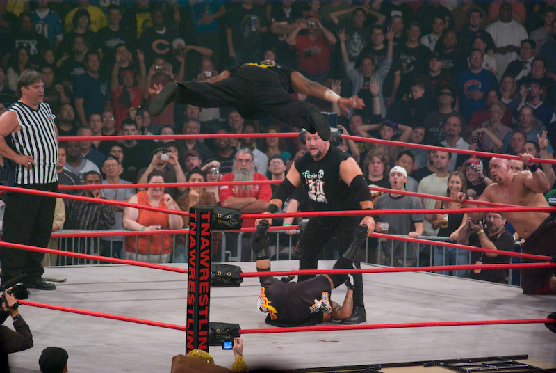 Team 3D performing their "Whassup?" maneuver at the TNA PPV "Bound to Glory IV"